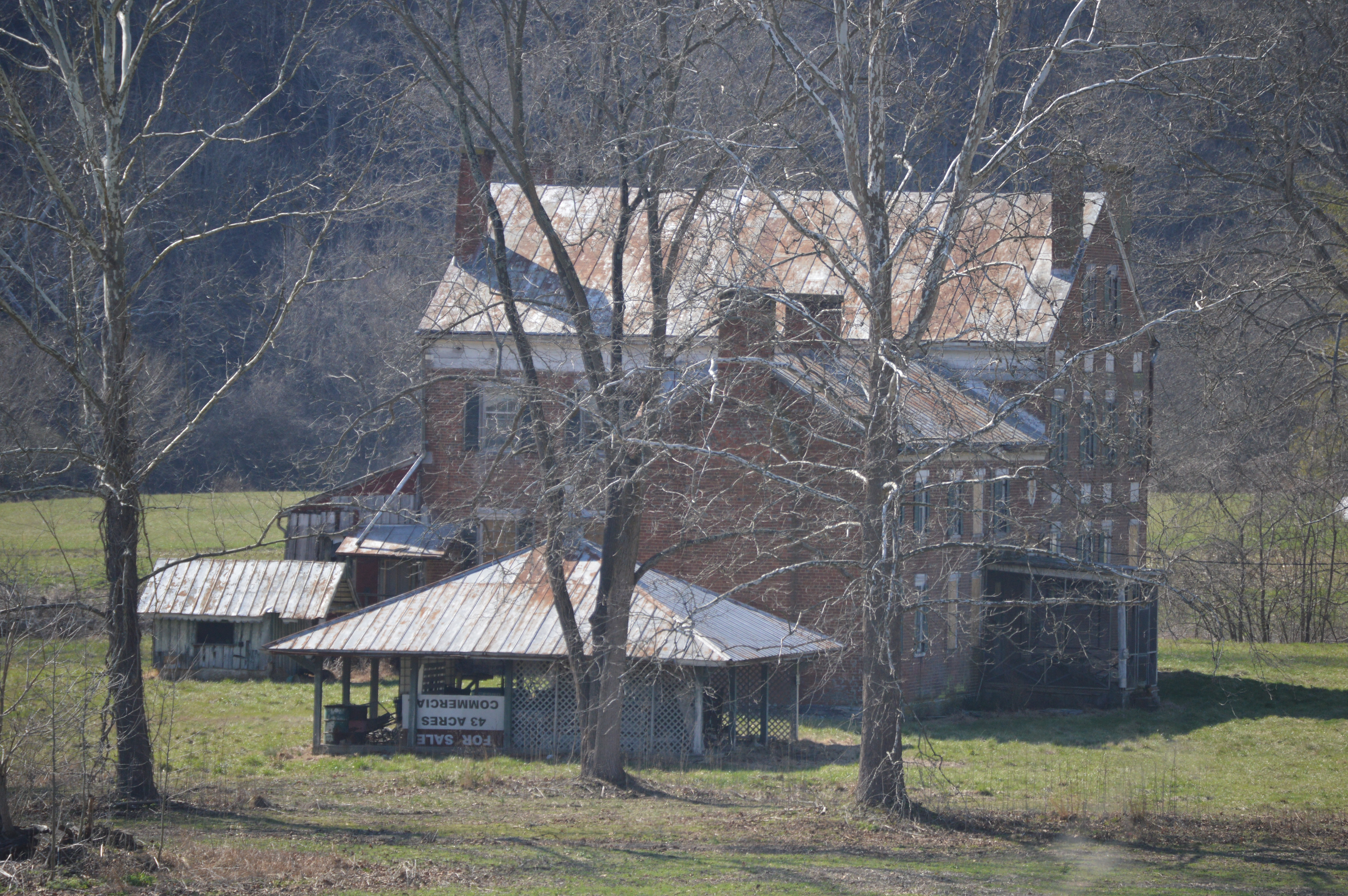 Eastern end and front of the Preston House, located on Interstate 81/U.S. Route 11 between Chilhowie and Marion in Smyth County, Virginia, United States. Built in 1842, it is listed on the National Register of Historic Places.